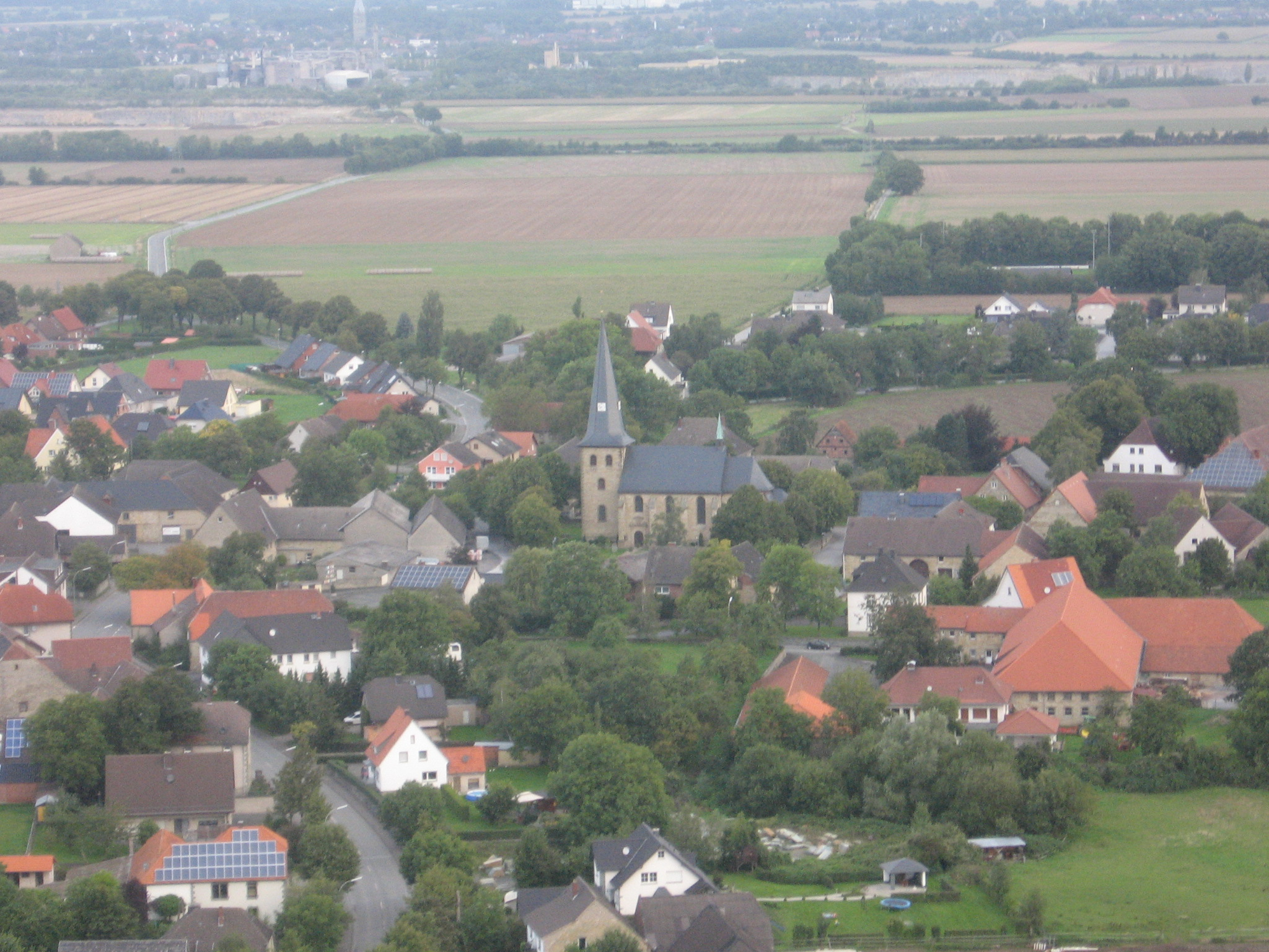 Church Anröchte-Berge